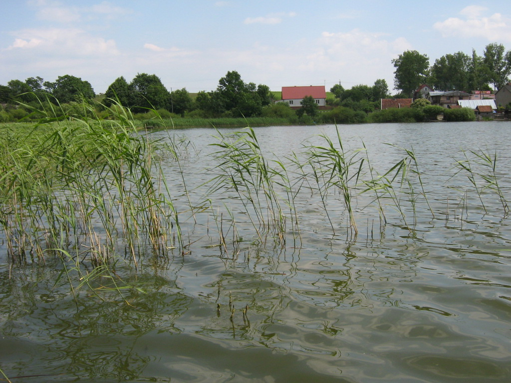 Oracze - village in Poland. Lake Jachimowo (Wityny).